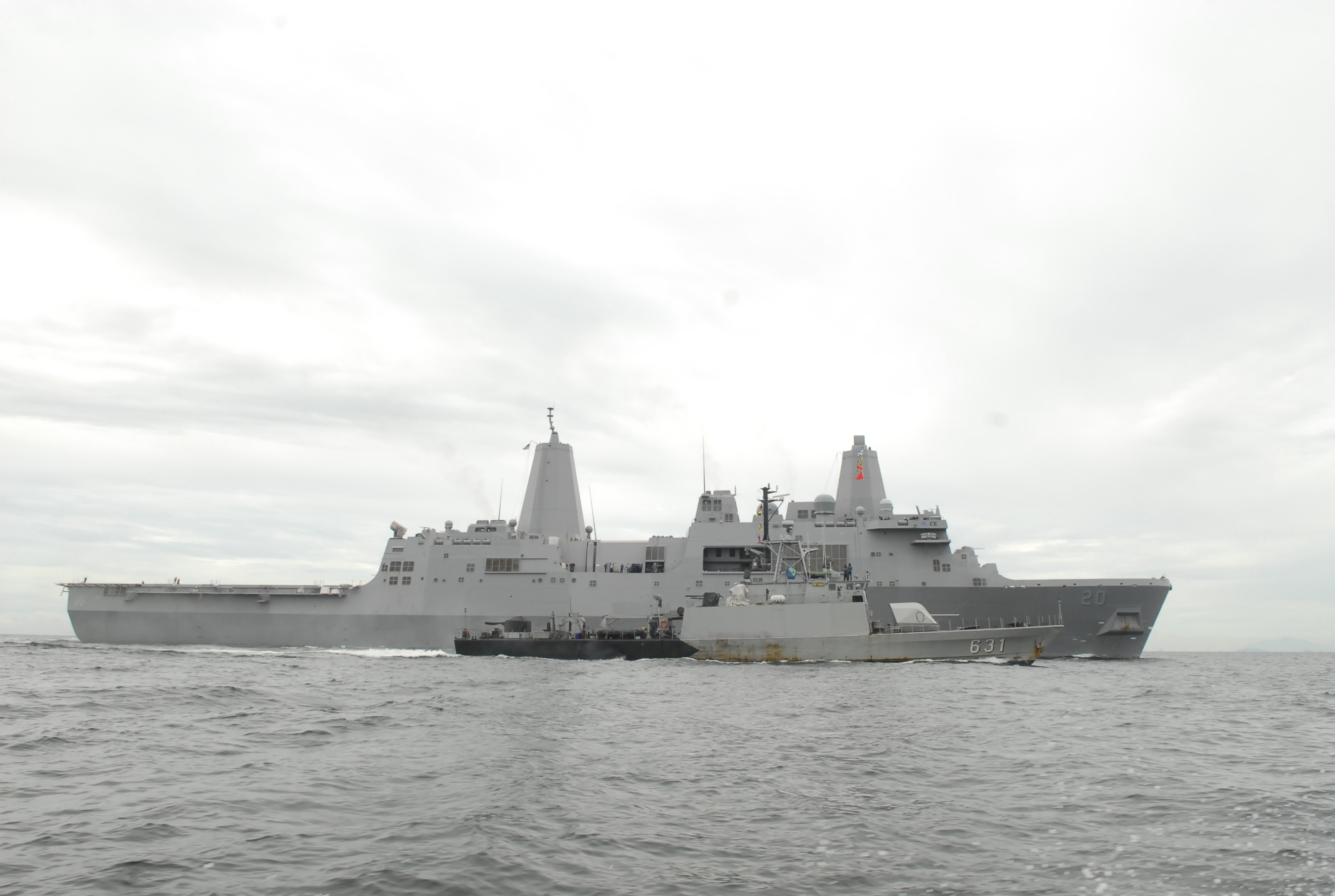 INDIAN OCEAN (Aug. 26, 2011) The Indonesian fast patrol boat KRI Todak 163, front, escorts the amphibious transport dock ship USS Green Bay (LPD 20) though the Indian Ocean. Green Bay is underway in the U.S. 7th Fleet area of responsibility during its maiden western Pacific deployment. (U.S. Navy photo by Mass Communication Specialist 1st Class Larry S. Carlson/Released)